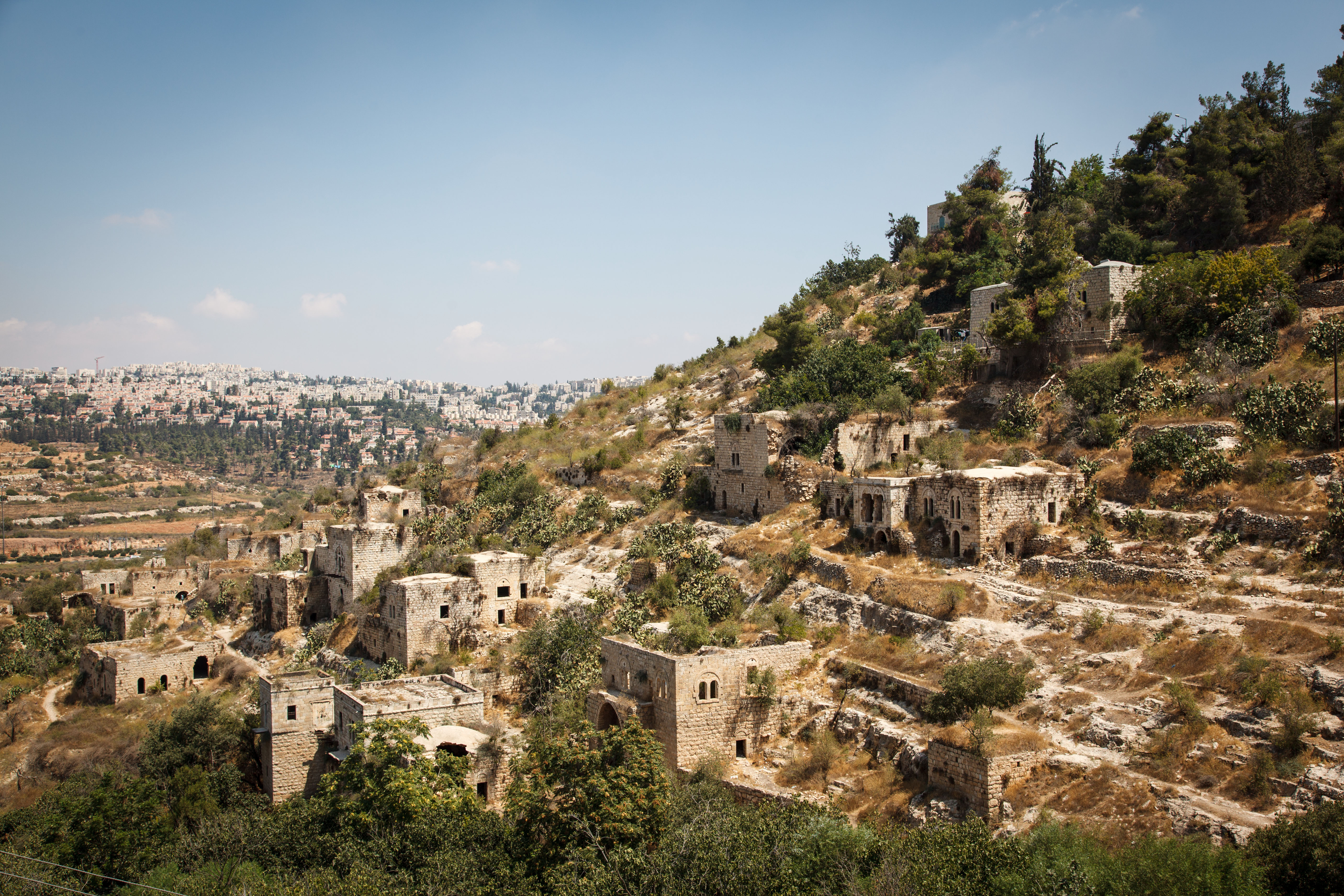 View of Lifta, Israel.